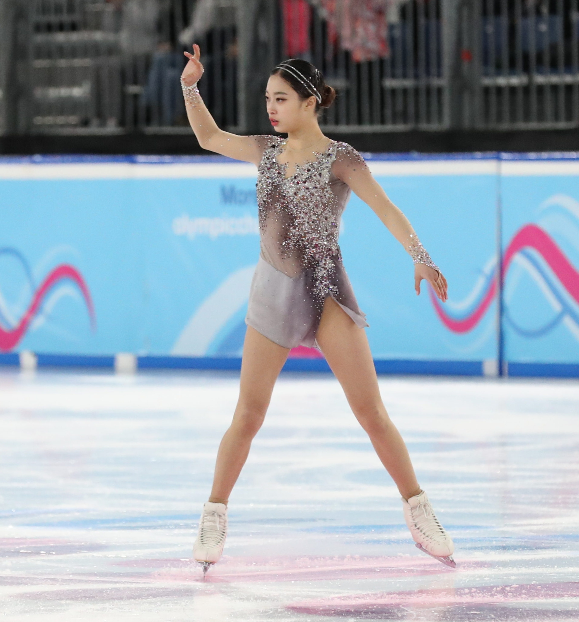 Women Single Figure Skating Short Program at the 2020 Winter Youth Olympics in Lausanne